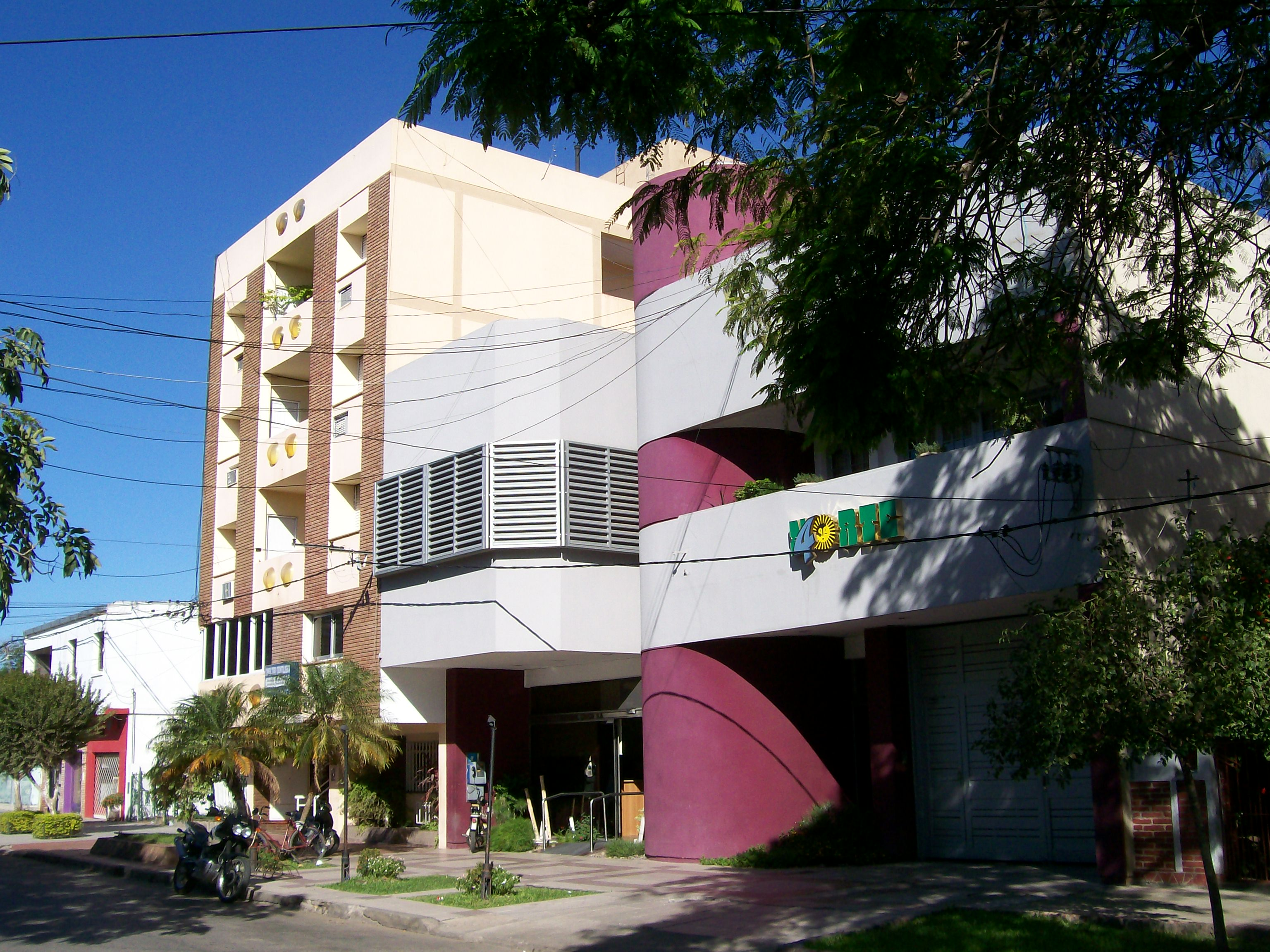 Headquarters of Editorial Chaco, publisher of Diario Norte (North Newspaper) in Resistencia, Chaco Province, Argentina. Only building with purple paint in the base correspond to the company. In the right building you can see special logo commemorating the 40th anniversary.